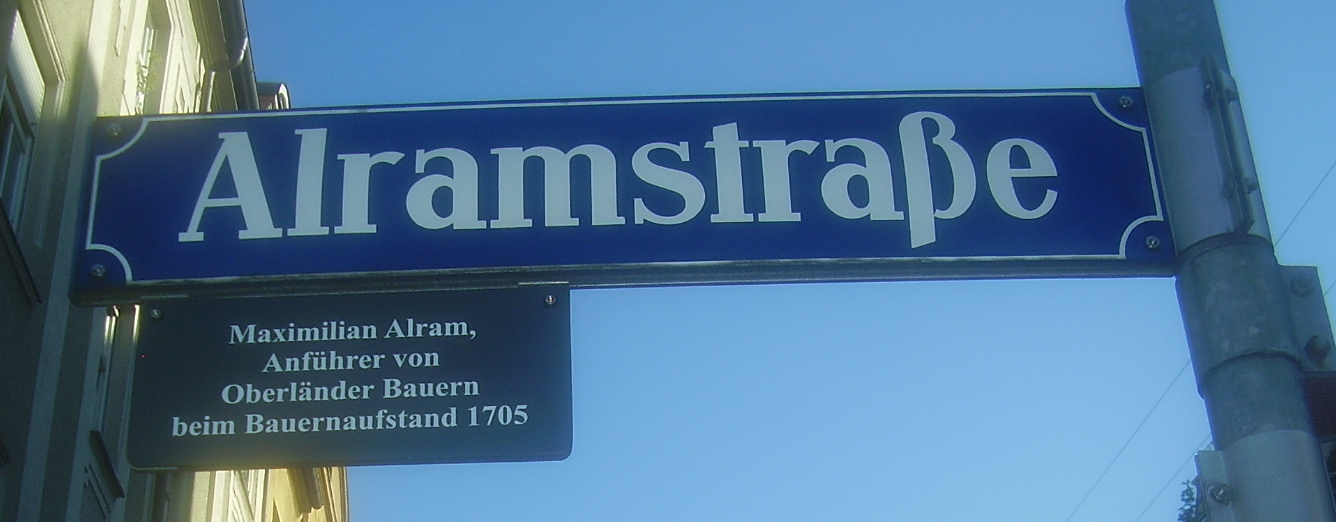 Alramstraße, Munich (street name sign)